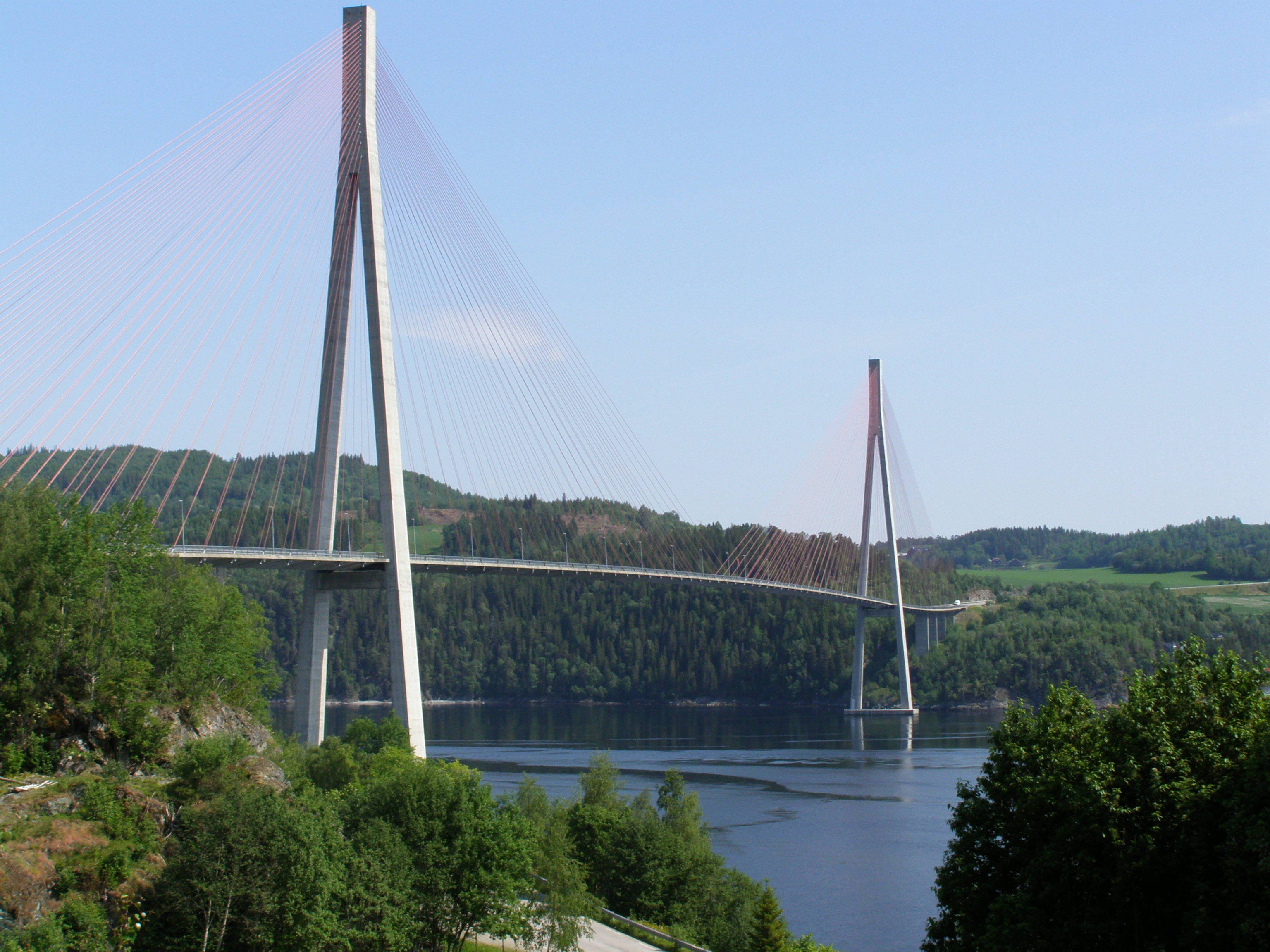 The Skarnsund Bridge is a 530 m main span long concrete cable-stayed bridge that crosses the sound Skarnsundet in Norway